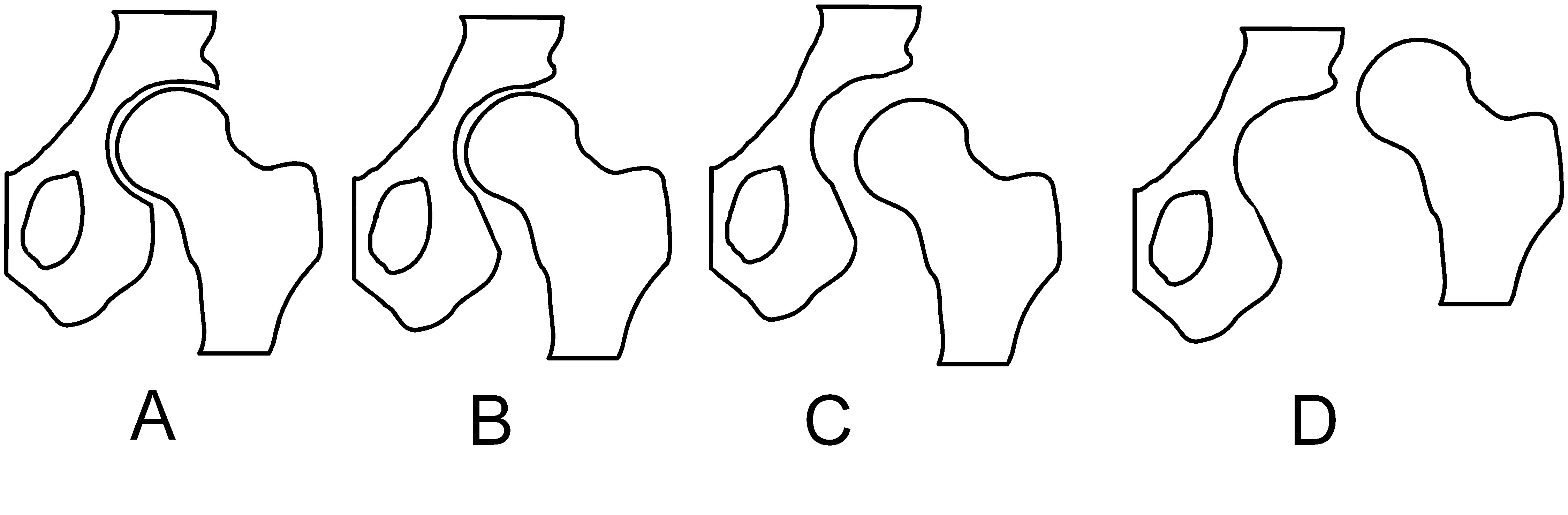 Schematic depiction of hip joint structures' positions in hip dysplasia.